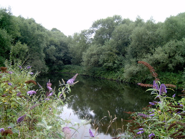 Remains of Ketley Canal. The last remnant of the Ketley canal in Paddock Mount, Ketley. This was built in 1788 by William Reynolds, a local Ironmaster, it ran to his iron foundry at Ketley from a junction with the Shropshire canal near Oakengates. 1064633